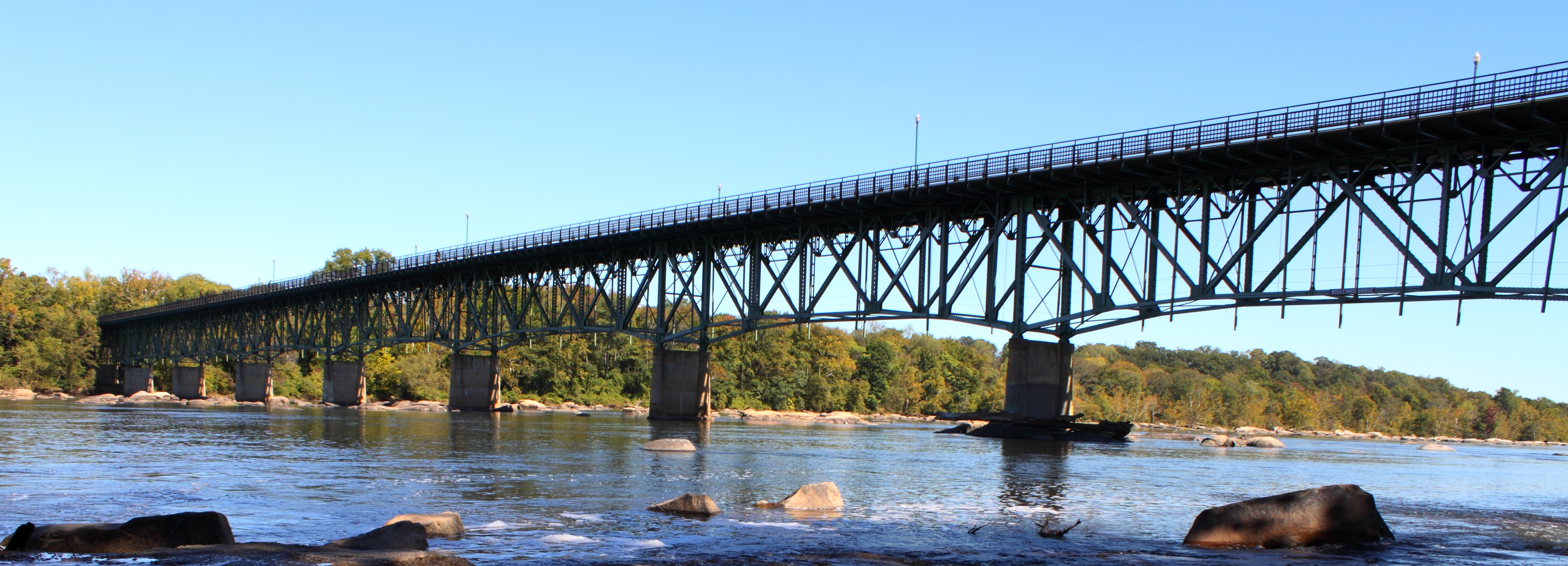 Boulevard Bridge across the James River, taken from the South of the river.